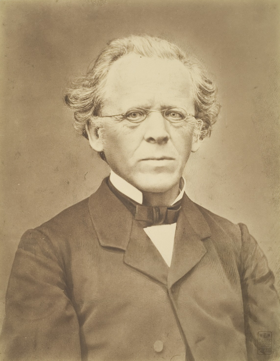 Friedrich Arnold (Anatom, 1803–1890)